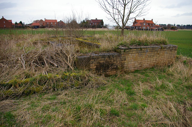 Ruin of the parish church of St John the Divine, Wildsworth, Lincolnshire